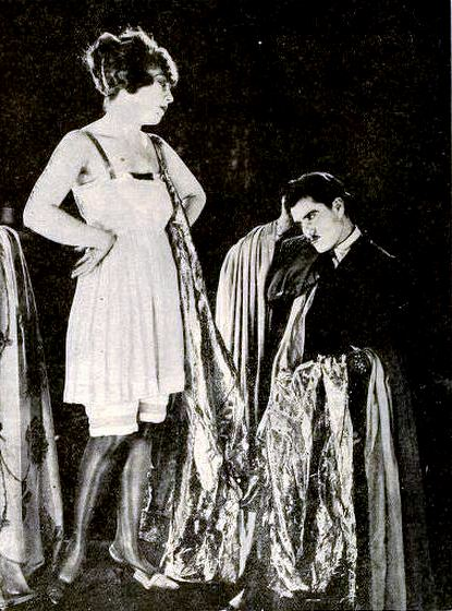 Still from the American comedy film Lombardi, Ltd. (1919) with Bert Lytell and Thea Talbot, on page 34 of the November 1919 Film Fun.